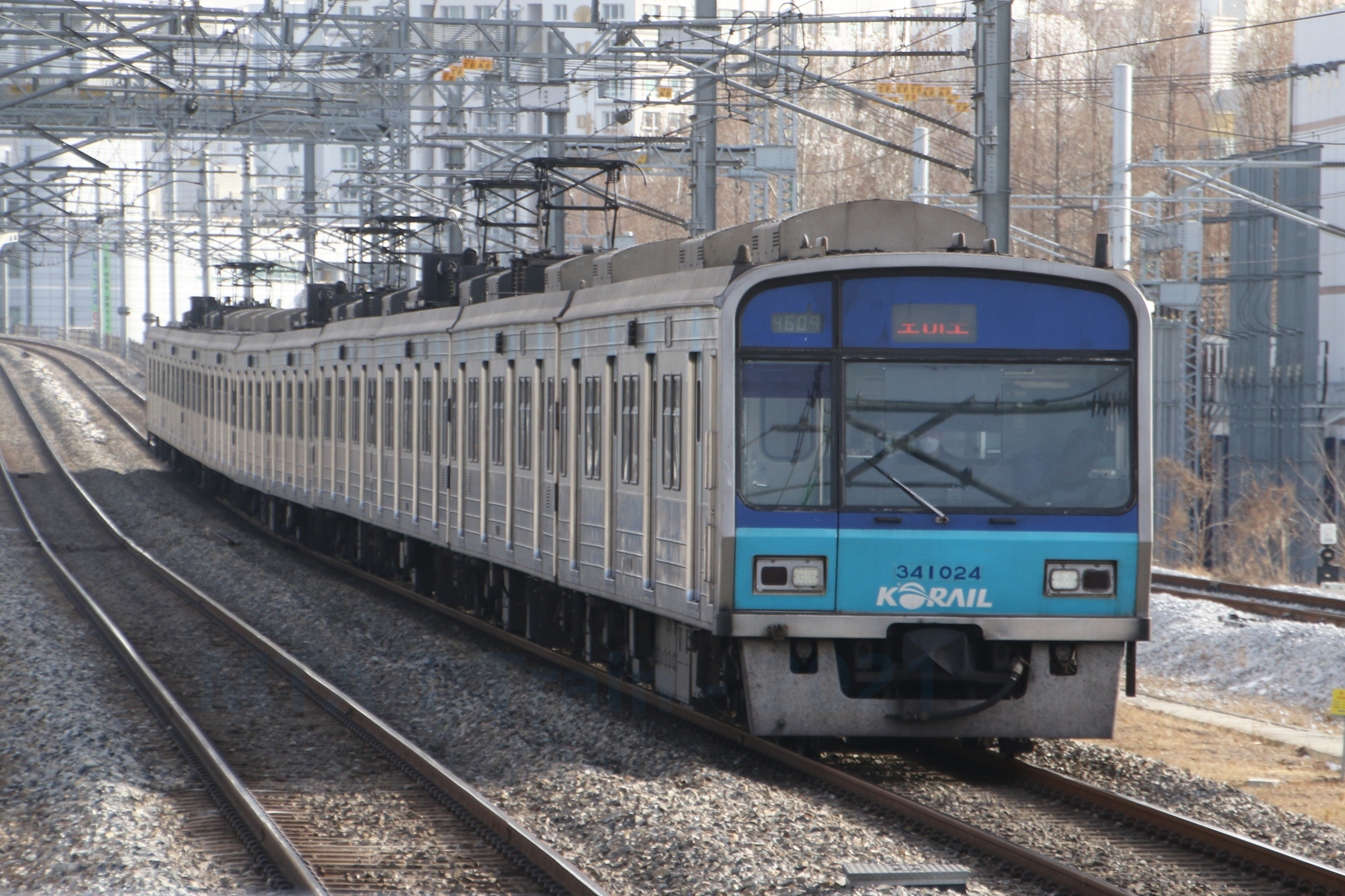 Korail Class 341000 (1st generation) Line 4 train at Geumjeong